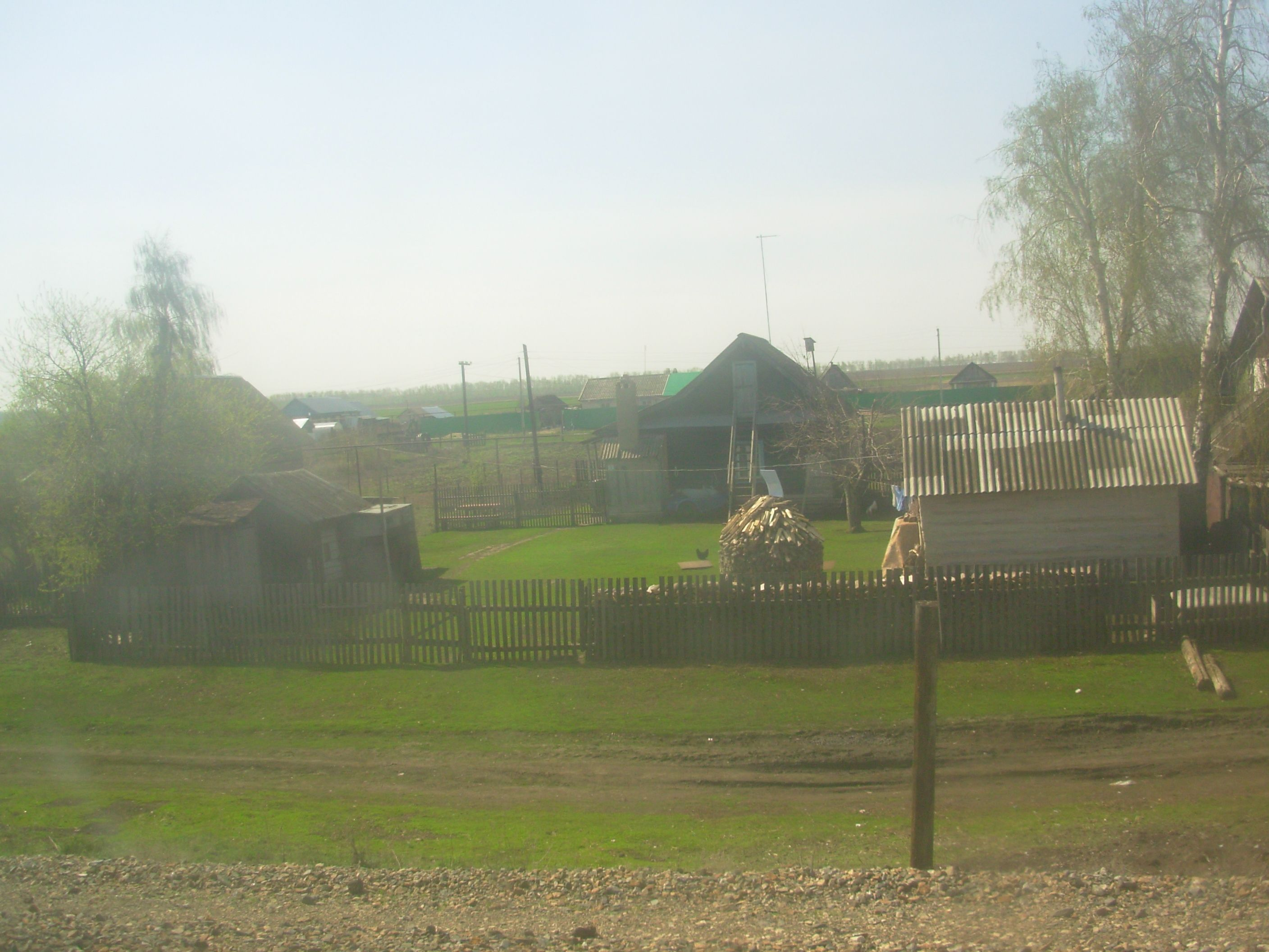 Станция Погрузная